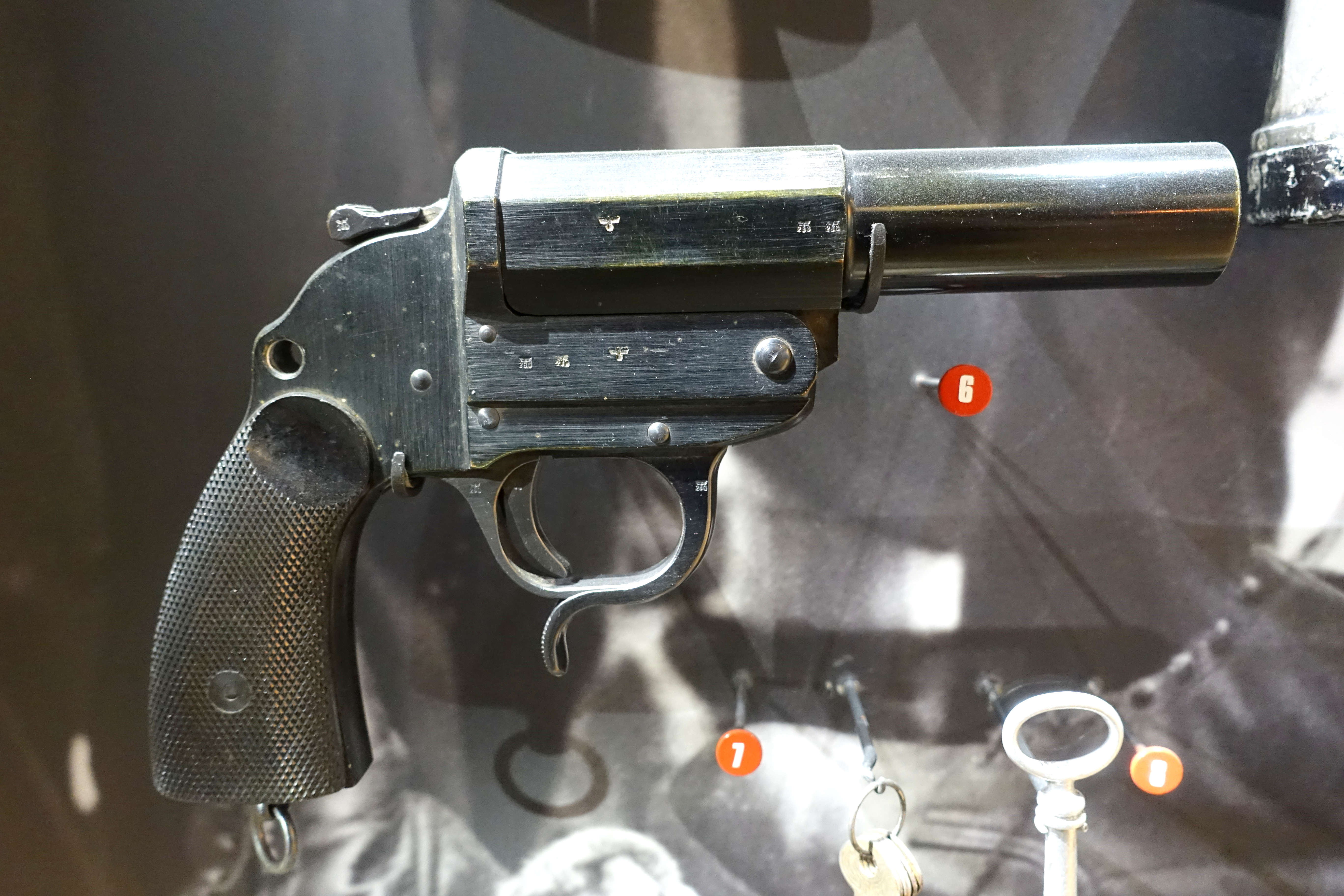 Exhibit in the Museum of Science and Industry, Chicago, Illinois, USA.